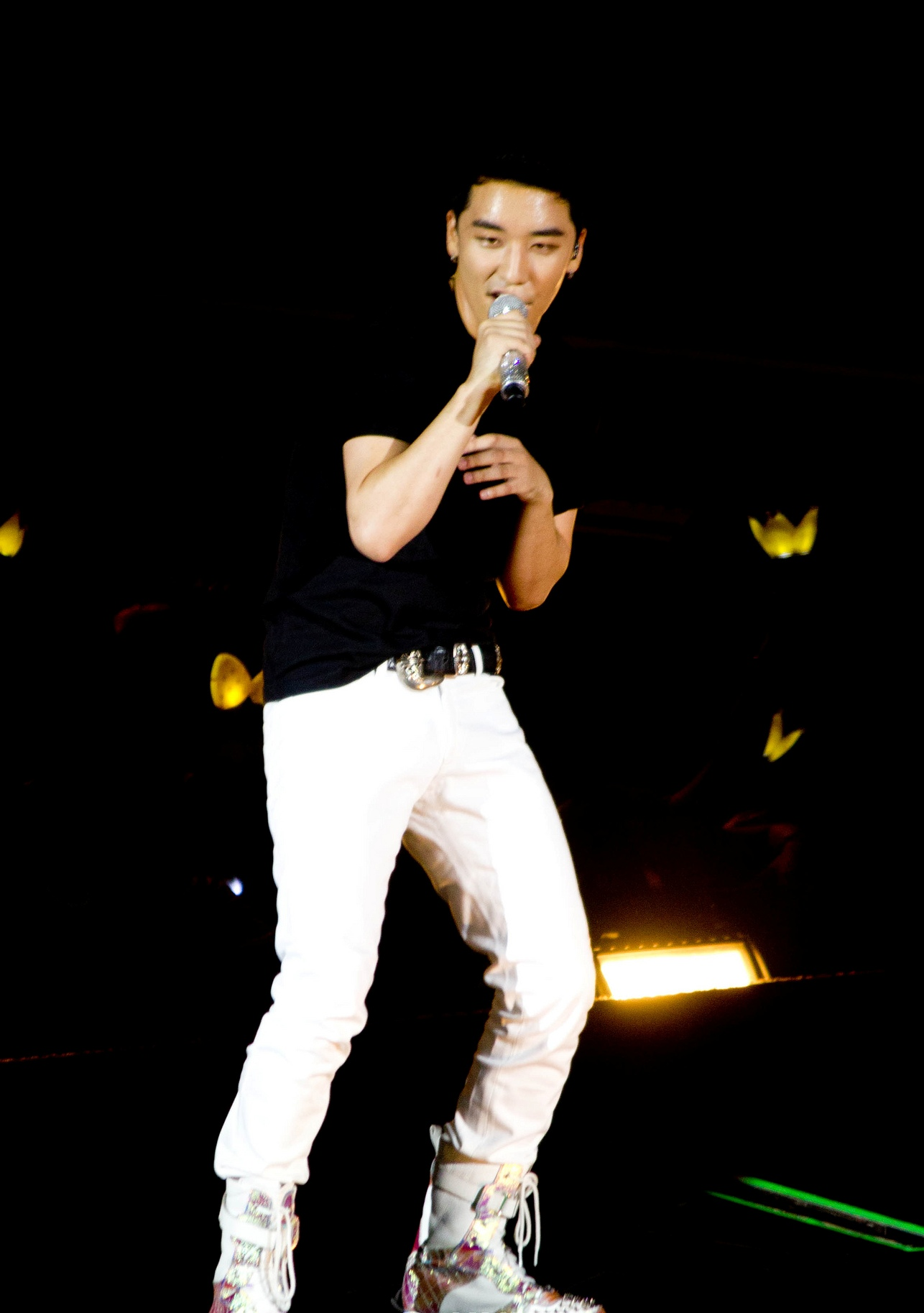 Seungri performing on Alive World tour